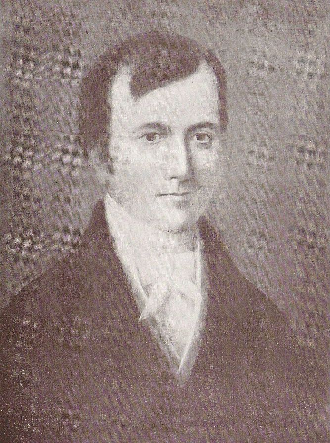 Scan of a portrait of Welsh radical author John Jones (Jac Glan-y-gors) (from a facsimile reprint of his work Seren tan Gwmwl, Hugh Evans & Sons, Liverpool, 1923)